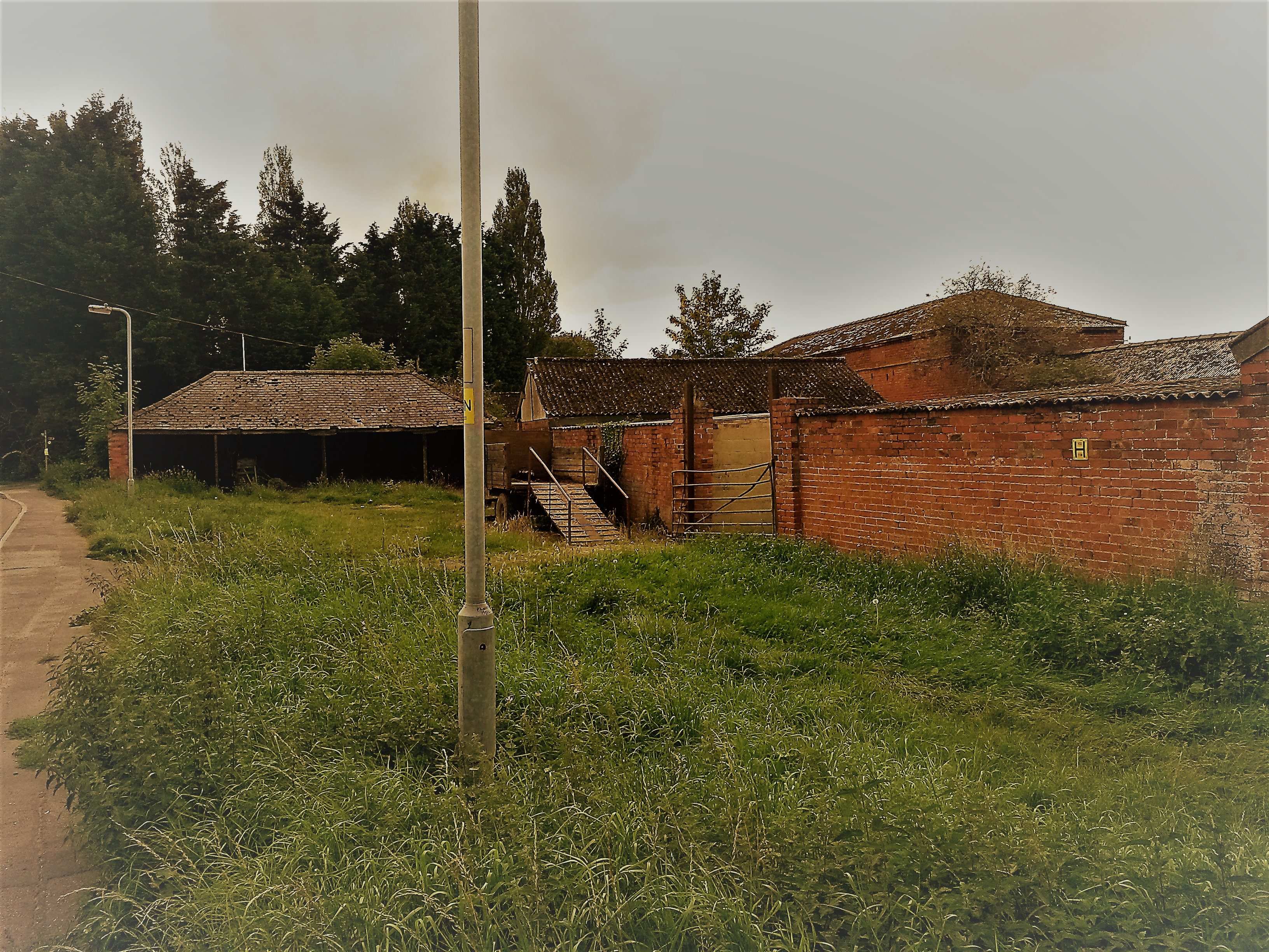 These are the outbuildings of Jerusalem Farm, Skellingthorpe, as observable from Jerusalem Road. They are a noticeable feature on the road.